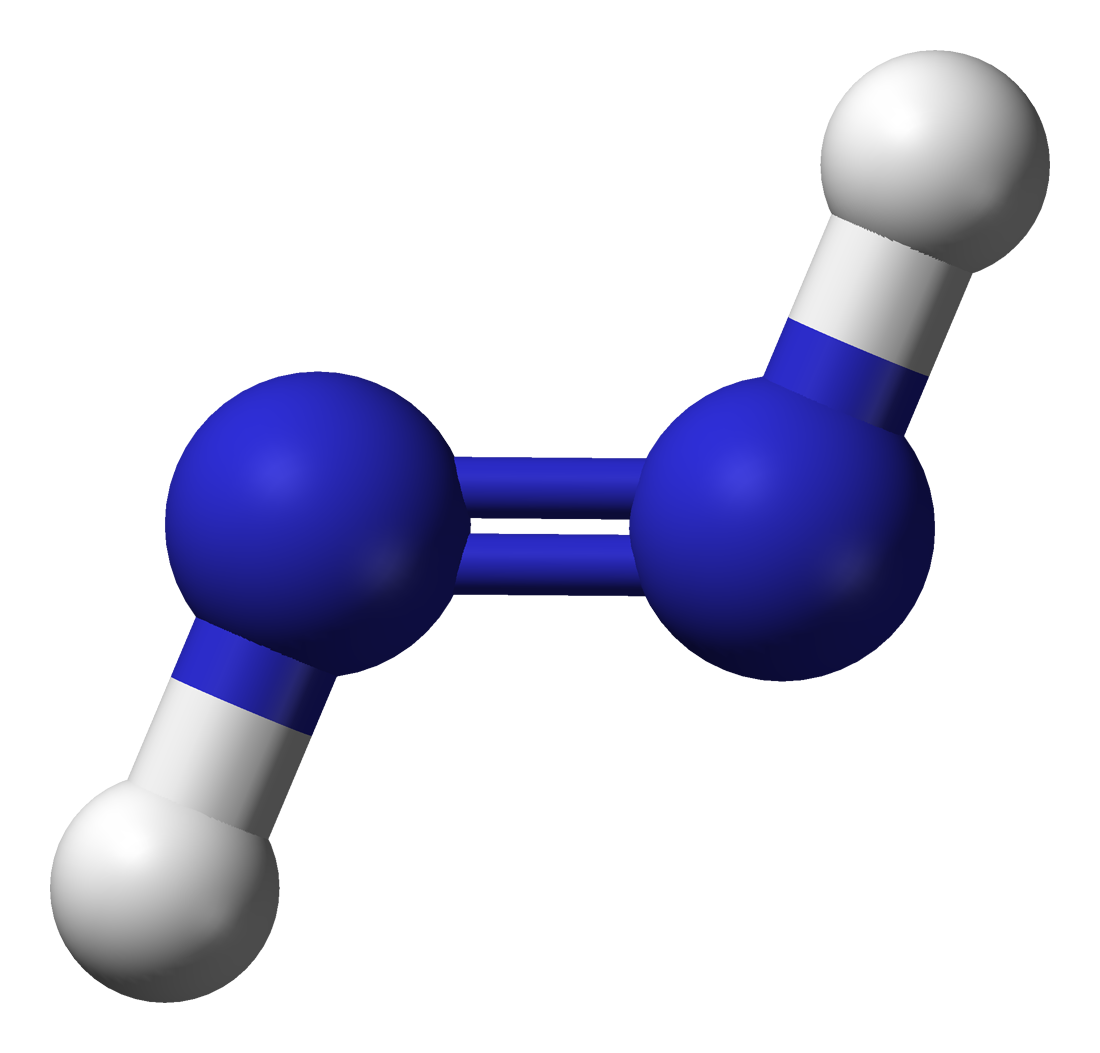 Ball-and-stick model of the trans-diazene molecule, N2H2